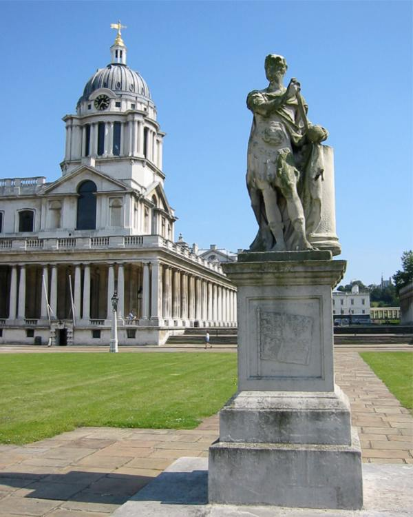 Statue of George II in the grounds of the Royal Naval College, Greenwich. Photograph by Michael Reeve, 17 June 2002.